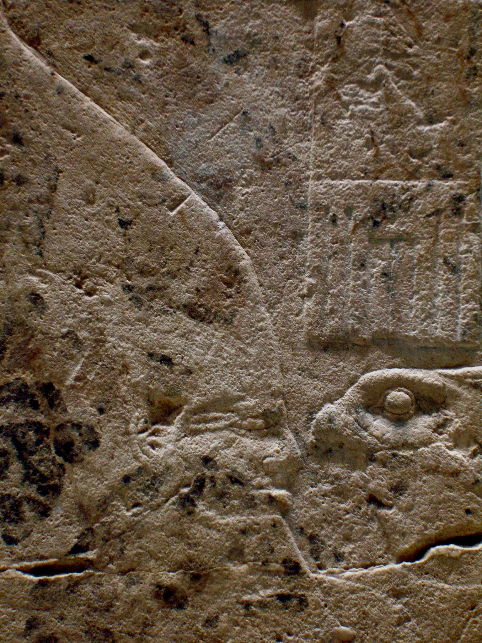 Detail of the stela of the Horus Qahedjet, whose identification is uncertain. The authenticity of the stela is also questioned. Paris. Musee du Louvre, E. 25982. Louvre